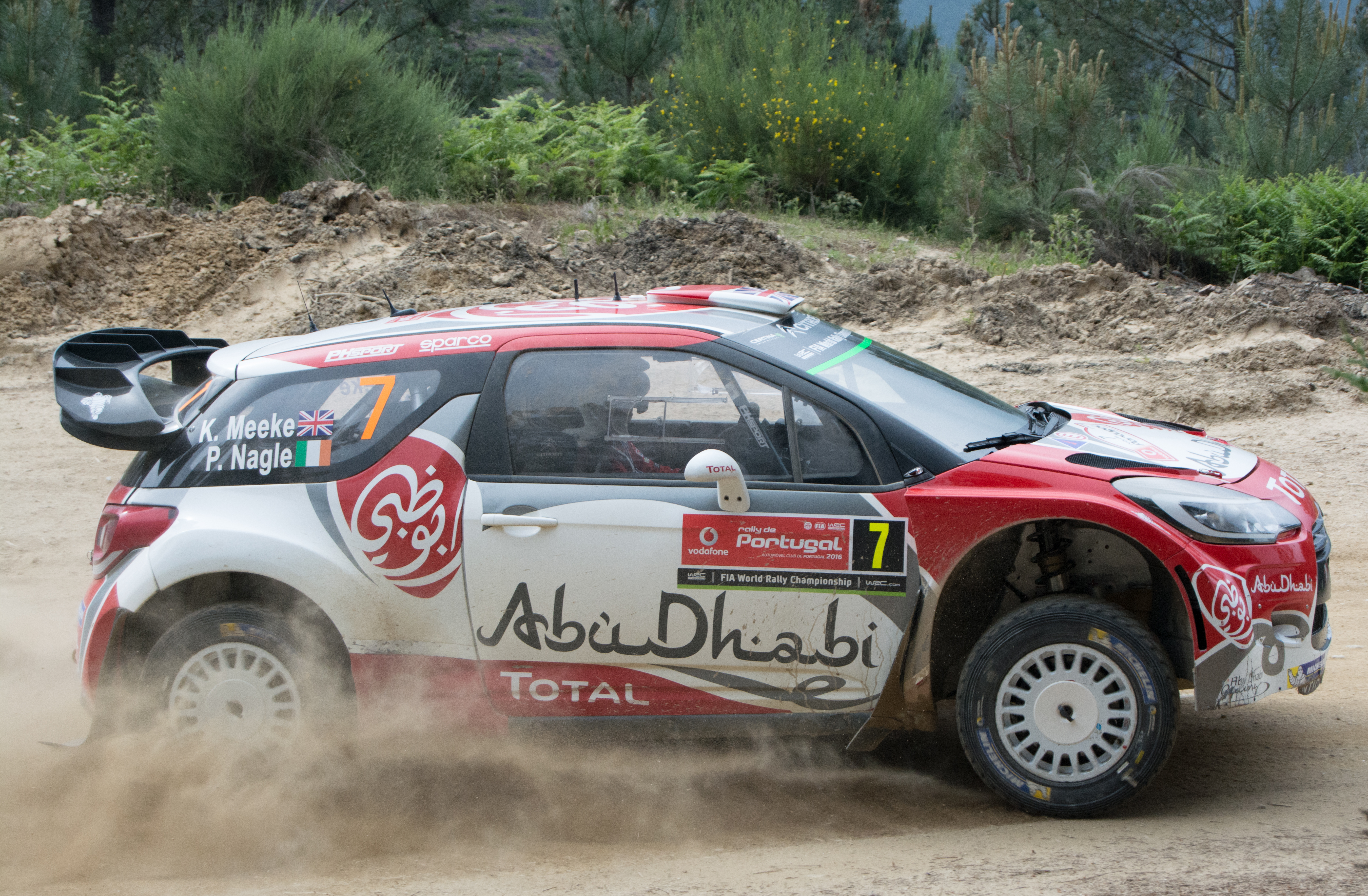 Rally of Portugal 2016. Section of "Marão", on the second pass